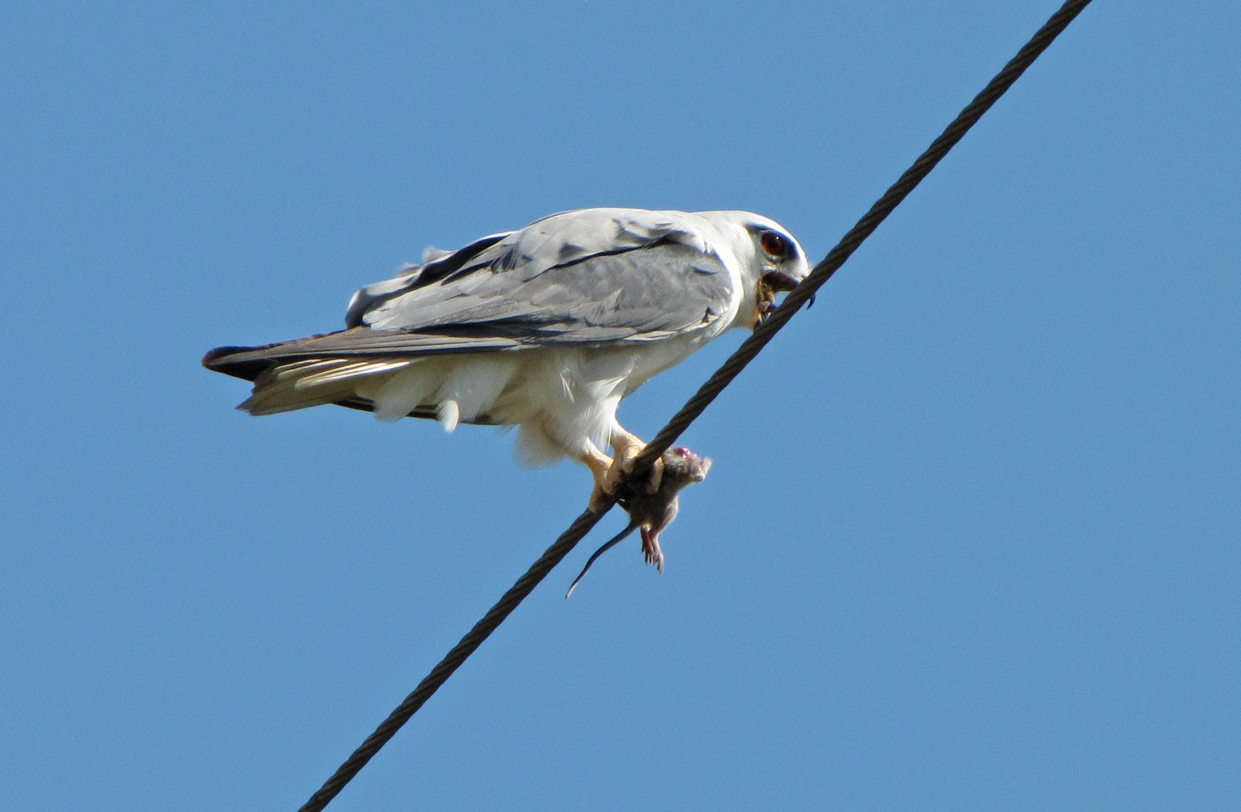 Black-shouldered Kite Elanus caeruleus at Hubli, Karnataka, India. Staple diet of the species is mice. These birds are one of the farmer's best friends in protecting the crop.